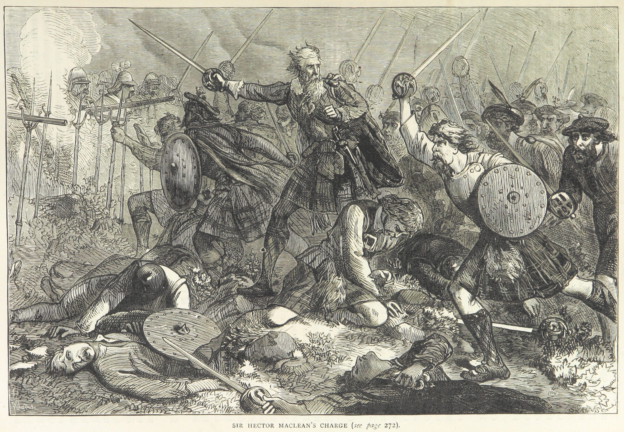 The charge of Sir Hector Maclean's forces at the Battle of Inverkeithing